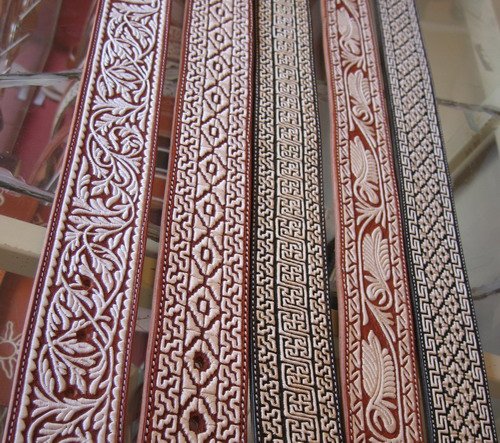 Example of piteado belts from Colotlan, Jalisco